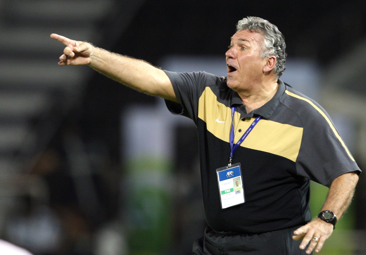 Qatar's Brazilian coach Sebastião Lazaroni gives instructions to his players during their 2014 FIFA World Cup qualification match against Iran at the Al Sadd Stadium. Pic by Mohan